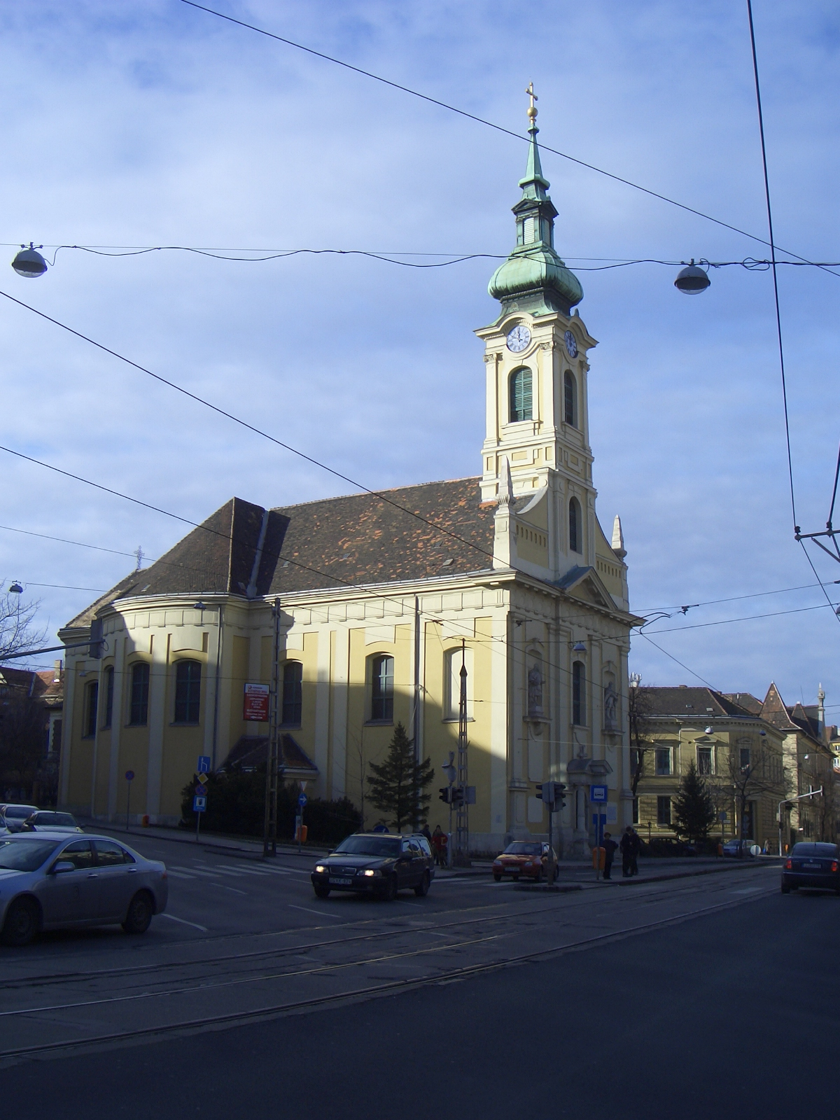 Church of our Lady in Krisztinaváros, Budapest, view from south